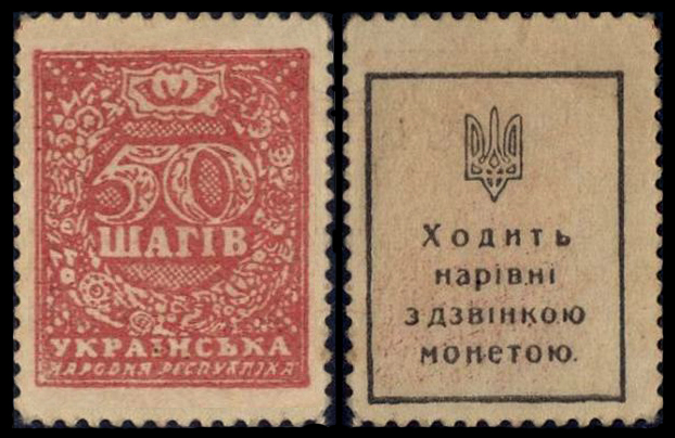 Stamp-money of Ukrainian People's Republic, 1918